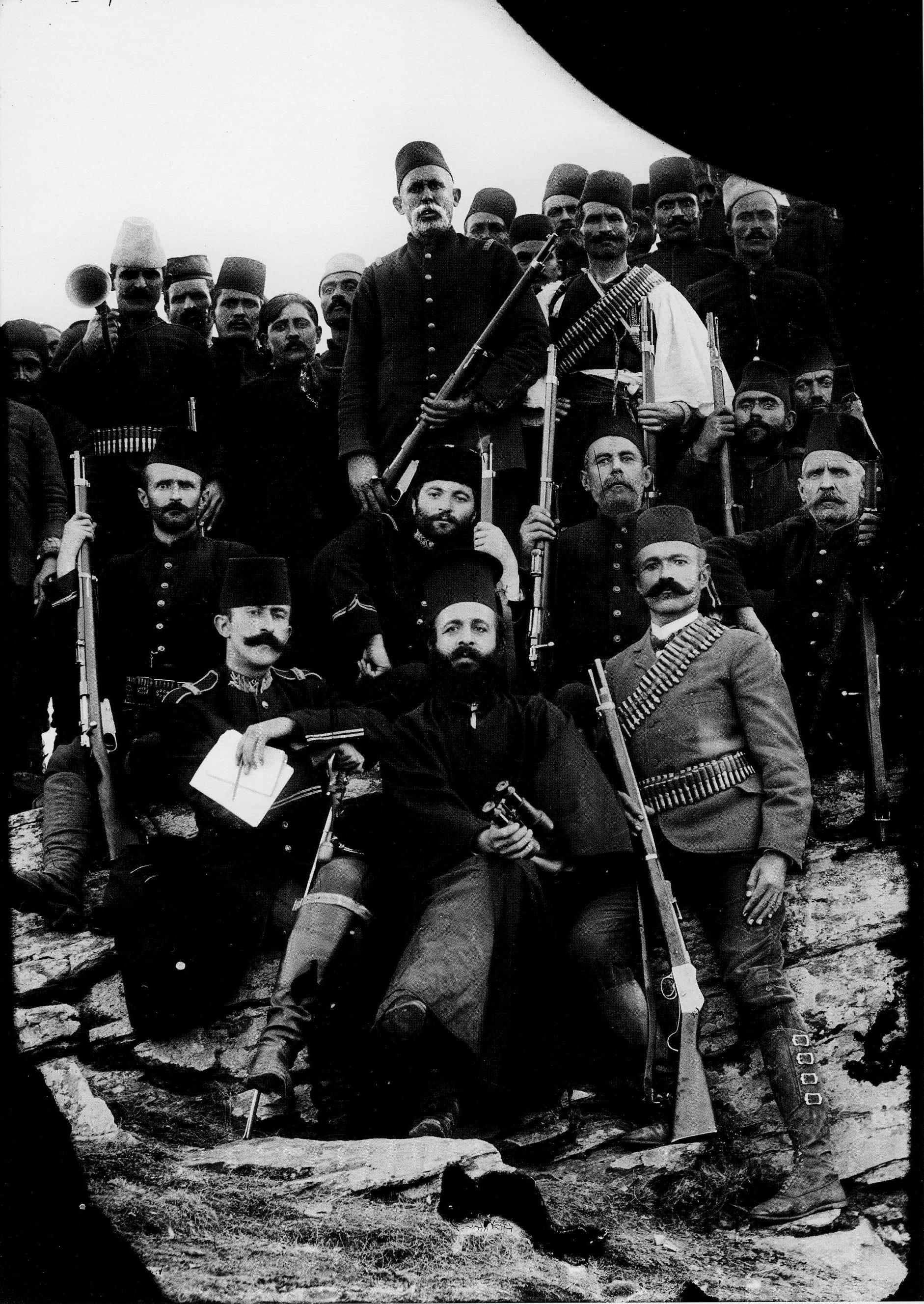 The Bishop of Kastoria Germanos Karavangelis, surrounded by Turkish officers and soldiers. Behind him the Italian officer Cosma Manera, organiser of the Turkish police in Kastoria.